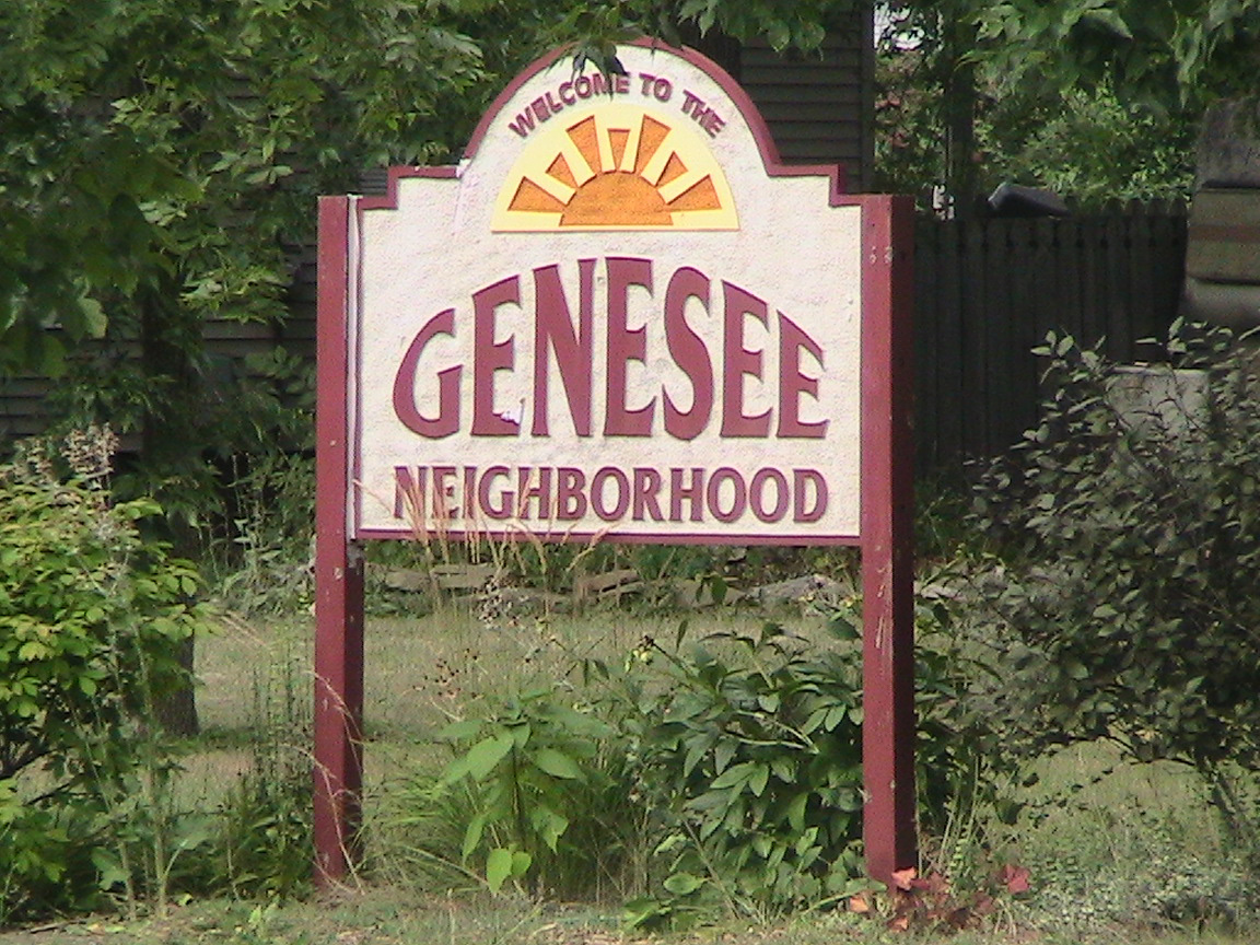 Genesee Neighborhood sign in Lansing, Michigan, northwest of downtown. Sign is along northbound Martin Luther King Blvd.